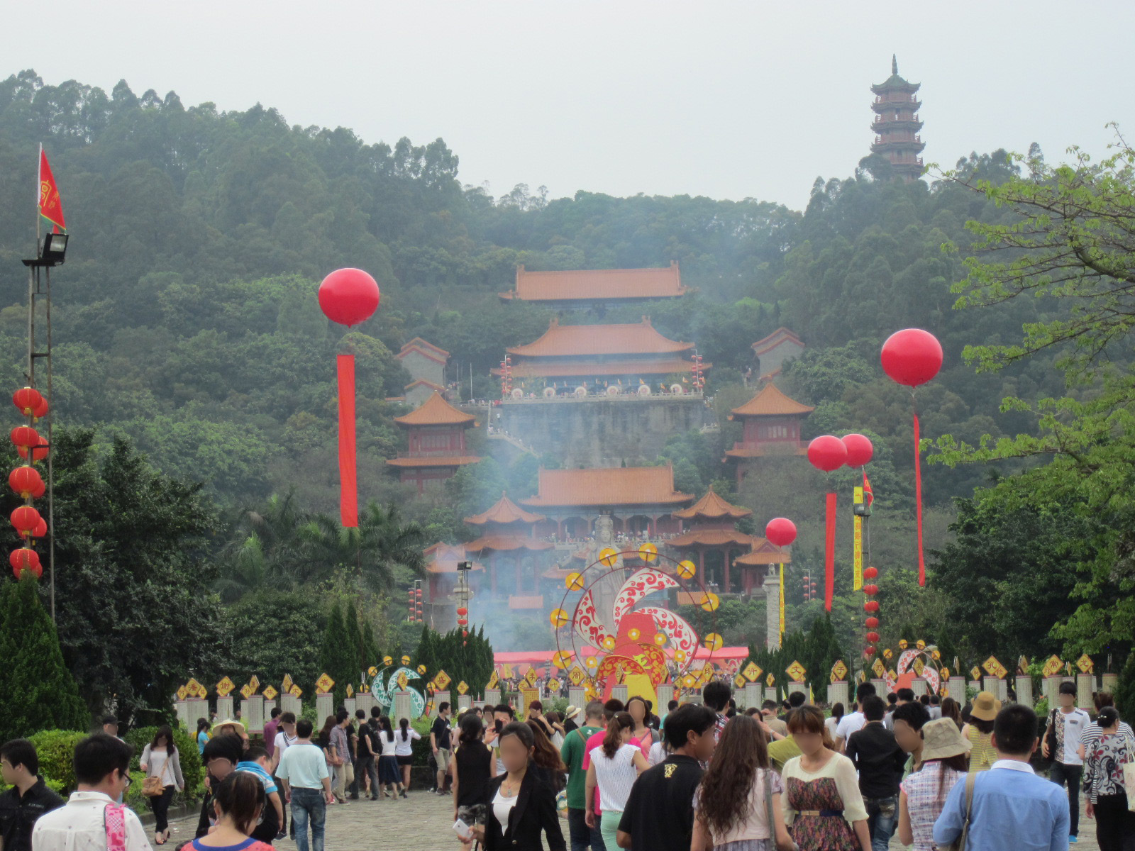 Tin Hau Temple, Nansha